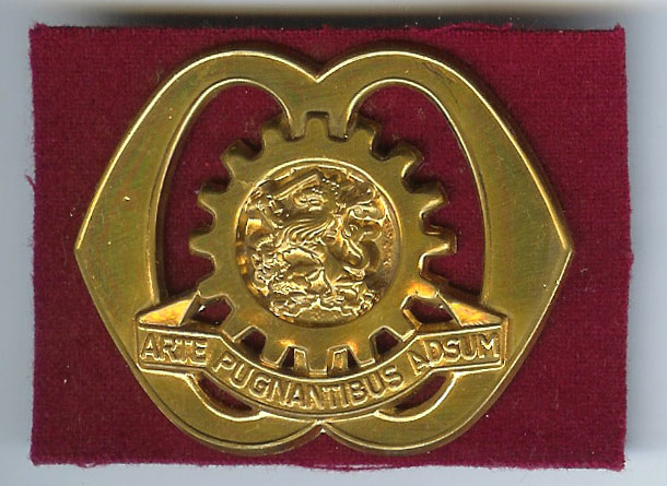 Dutch cap badge from the Technical Staff